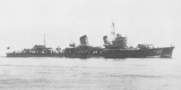 Imperial Japanese Navy destroyer Inazuma (Fubuki-class type-III or Akatsuki-class) in 1937.